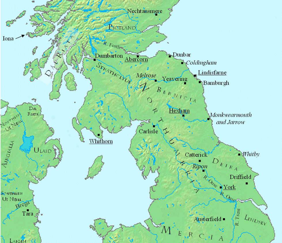 This is a map showing the north central British Isles in the late seventh century. The file was created using DMIS. On that site it is stated that "We do not claim copyright on the images, so you can use them for Wikipedia." Sources include (for Great Britain) a map found in Peter Hunter Blair's "Roman Britain and Early England: 55 B.C.-871 A.D.", W.W. Norton, 1963, p. 209; and (for Ireland) on a map in Duffy's Atlas of Irish History.